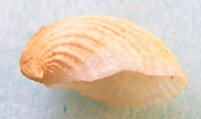 Thyca crystallina (Gould, 1846); family Eulimidae; the Philippines